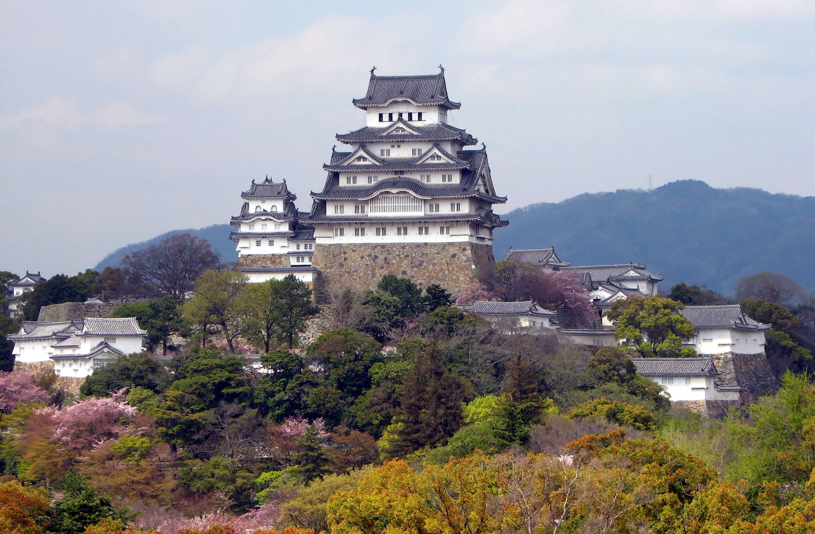 Himeji Castle, Himeji, Hyogo Prefecture, Japan